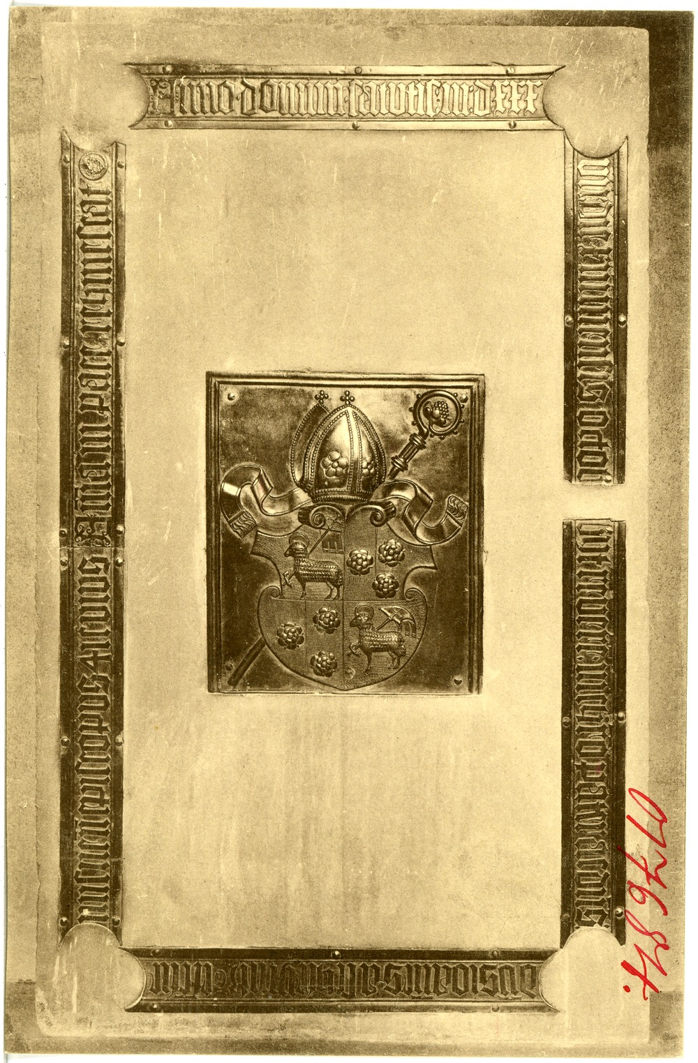 This postcard is from publisher Brück & Sohn in Meißen ( This postcard has a unique number 17684 and is available in a higher resolution at the publisher. This images was uploaded in a cooperation project between Wikipedians and the publisher.